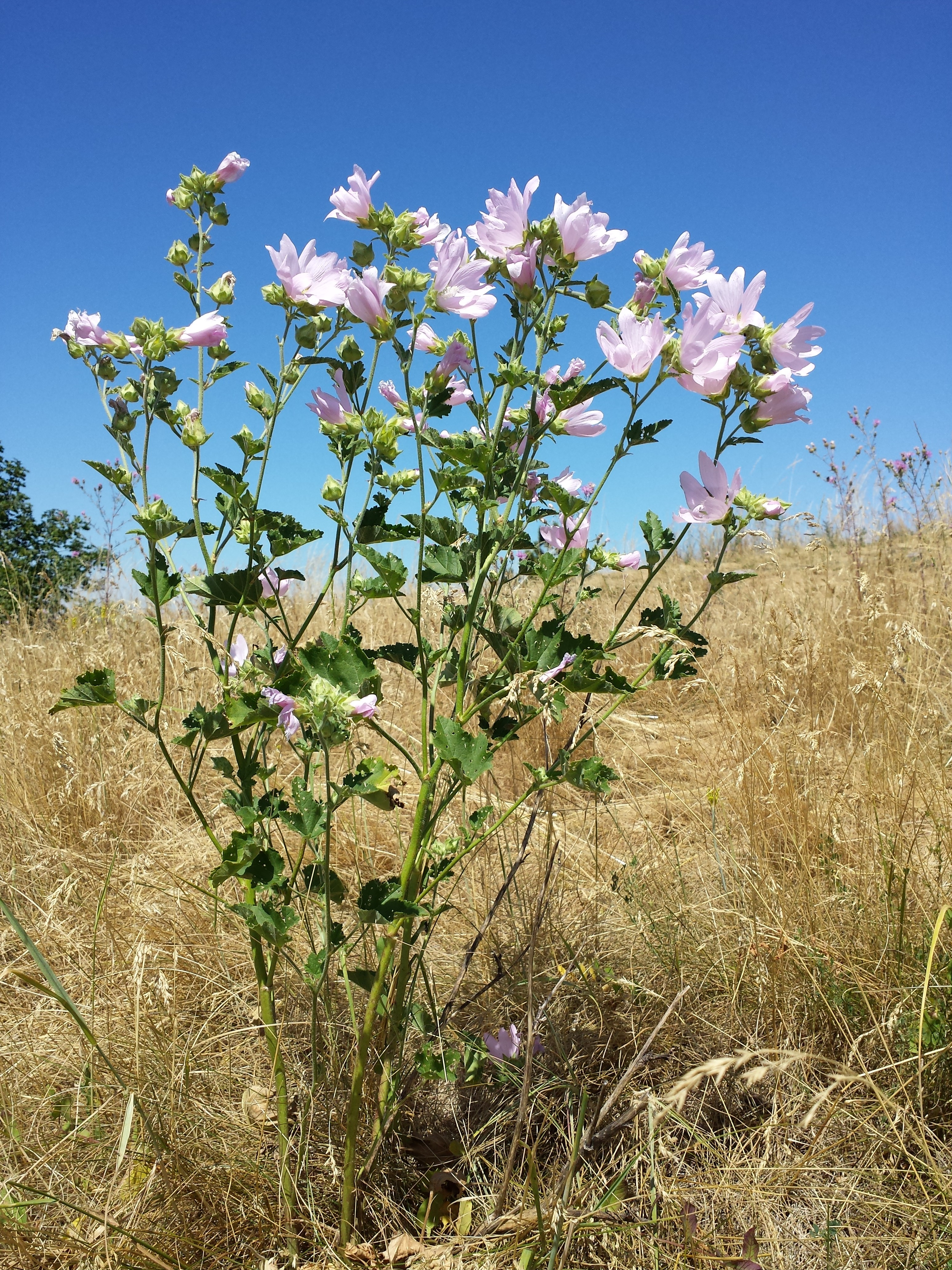 Habitus Taxonym: Lavatera thuringiaca ss Fischer et al. EfÖLS 2008 ISBN 978-3-85474-187-9 Location: motte near Buschberg, Leiser Berge, district Korneuburg, Lower Austria - ca. 485 m a.s.l. Habitat: dry grassland on lime stone